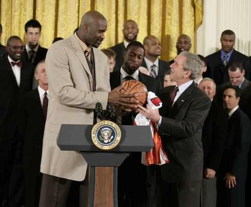 President George W. Bush receives an autographed ball from Shaquille O'Neal Tuesday, Feb. 27, 2007, as the 2006 NBA champions visited the White House. The President told the East Room audience he was most impressed by the Heat's work in their Miami community and added, "I mean, I'm in awe of their athletic skills... Standing next to Shaq is an awe-inspiring experience." White House photo by Eric Draper